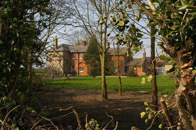 Whitehouse Farm, Pages Lane, Tolleshunt D'Arcy, Essex